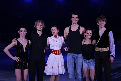 Gold Medalists at the exhibition gala of the Four Continents Championships 2013.